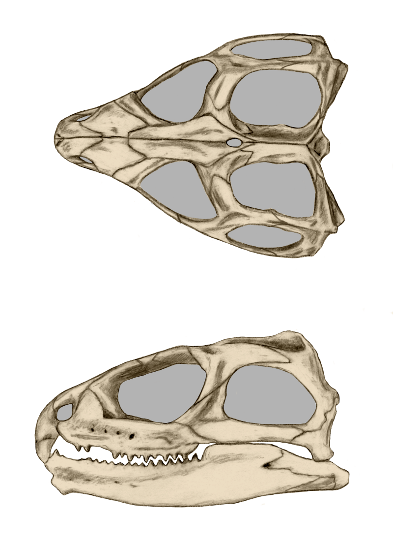 A schematic of the skull of the tuatara (Sphenodon), based on [1], [2]and [3]